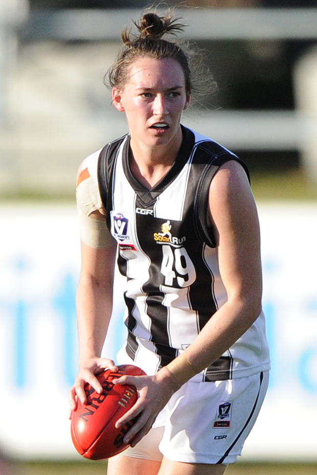 Sophie Alexander of Collingwood during the 2018 VFLW round 8 match between NT Thunder and Collingwood at TIO Stadium on Saturday, 30 June 2018 in Darwin, Australia.